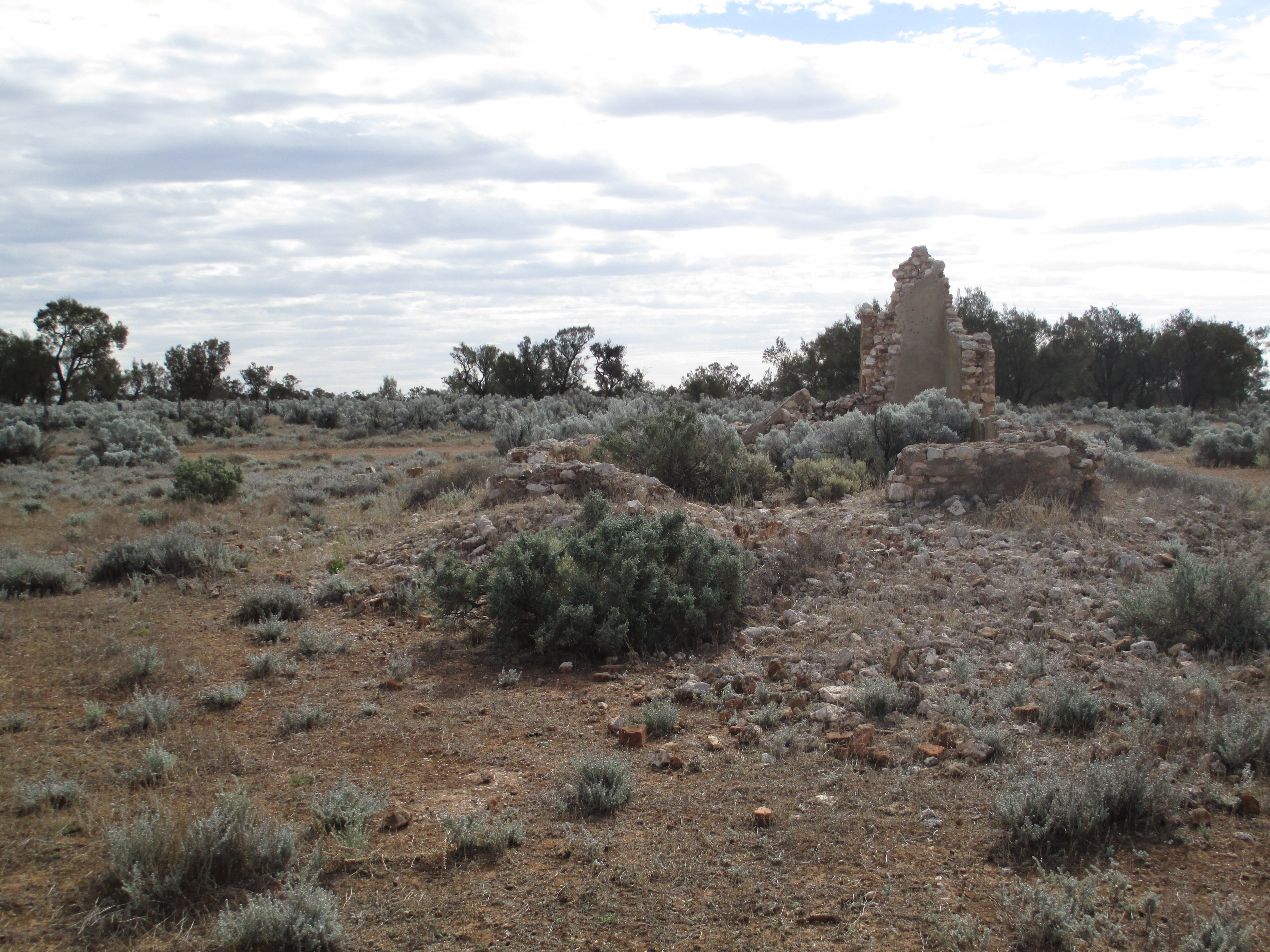 What remains of the Immanuel Lutheran church, deconsecrated in 1925